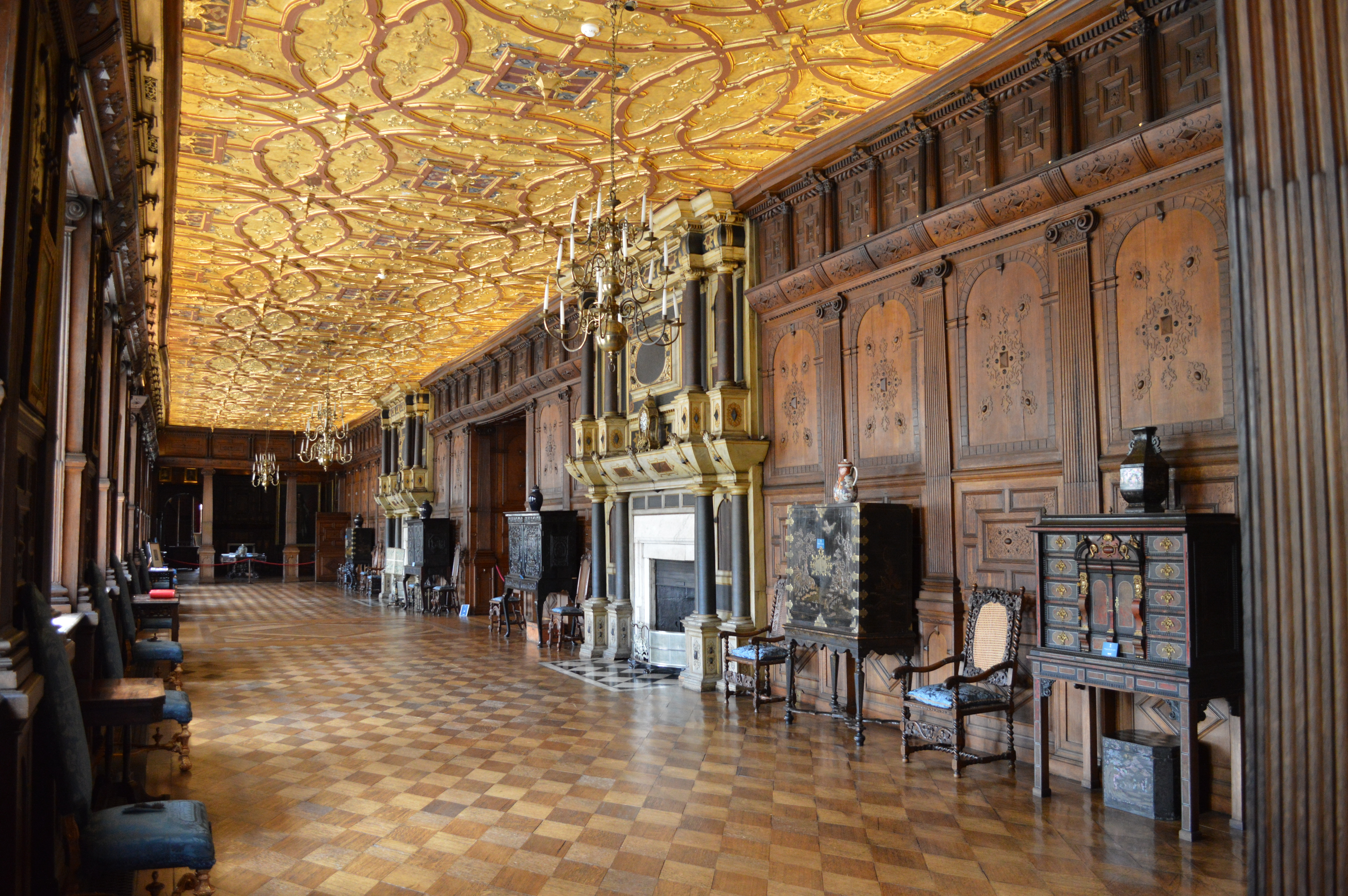 Interior of Hatfield House.